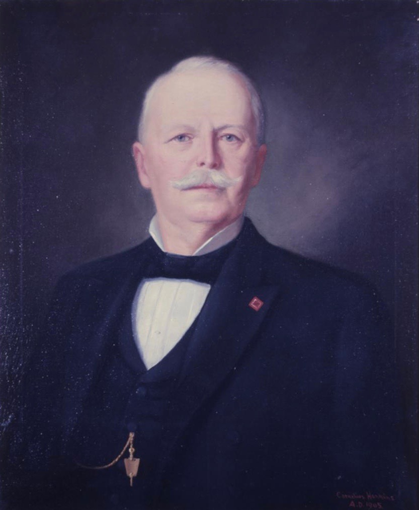 Collection: Governors Portraits photograph collection Call number: PI/1989.0008 System ID: 98792. Link to the catalog Governor Robert Lowry, Jan. 29, 1882 to Jan. 13, 1890, by Cornelius Hankins (1863-1946), 1905, Mississippi Department of Archives and History Please see our profile page for information on ordering. Scanned as tiff in 2008/05/15 by MDAH. Credit: Courtesy of the Mississippi Department of Archives and History